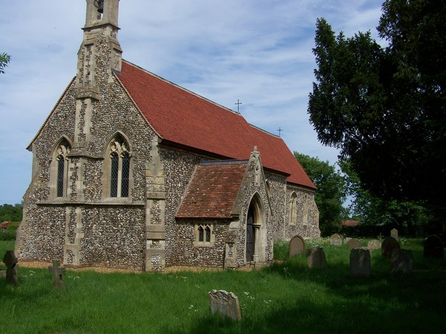 St Andrew's parish church, Sotherton, Suffolk, seen from the southwest